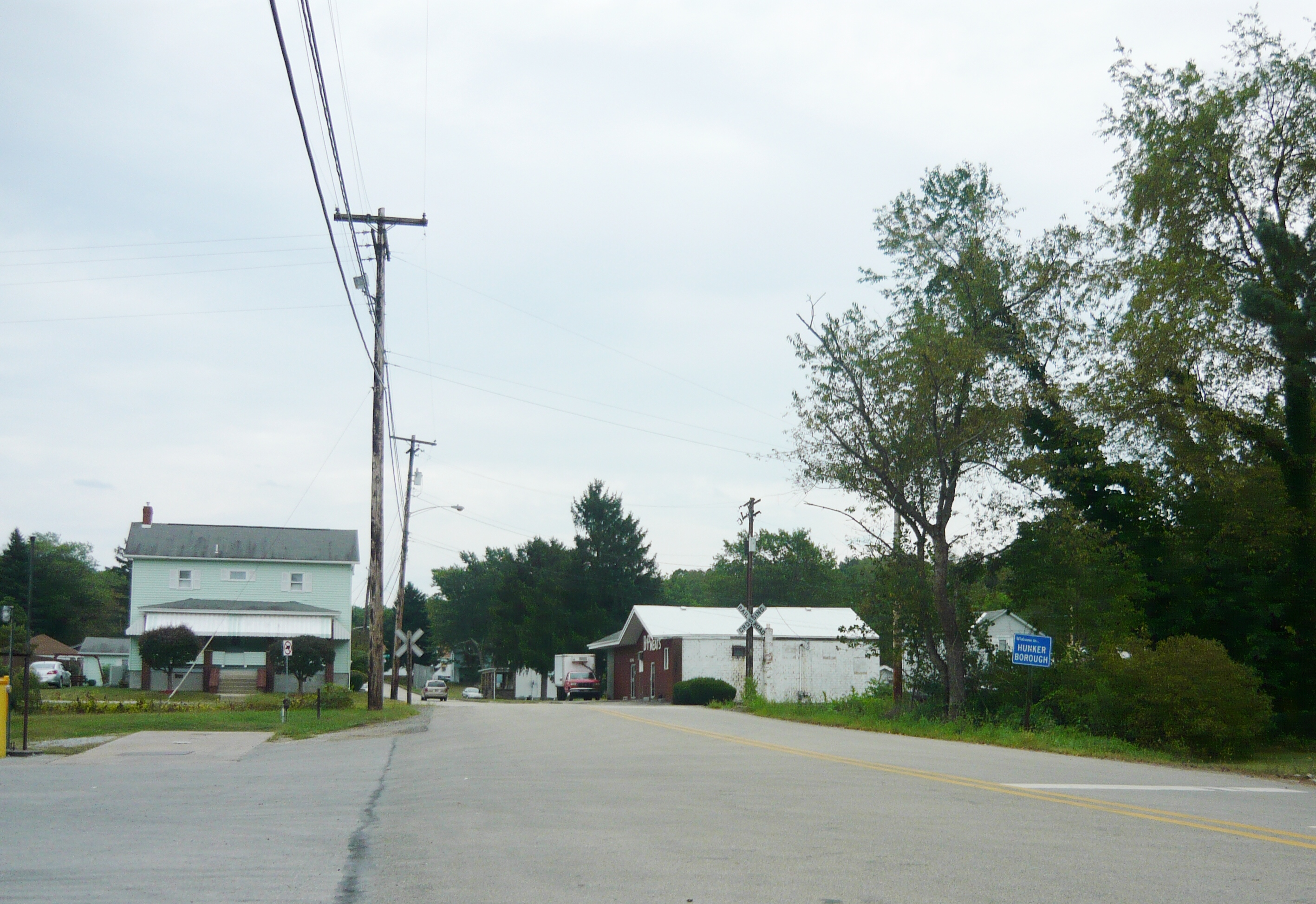 Looking toward the southeast on Bridge Street, just outside the borough boundary. (Note boundary sign at right.) Borough of Hunker, Westmoreland County, Pennsylvania.